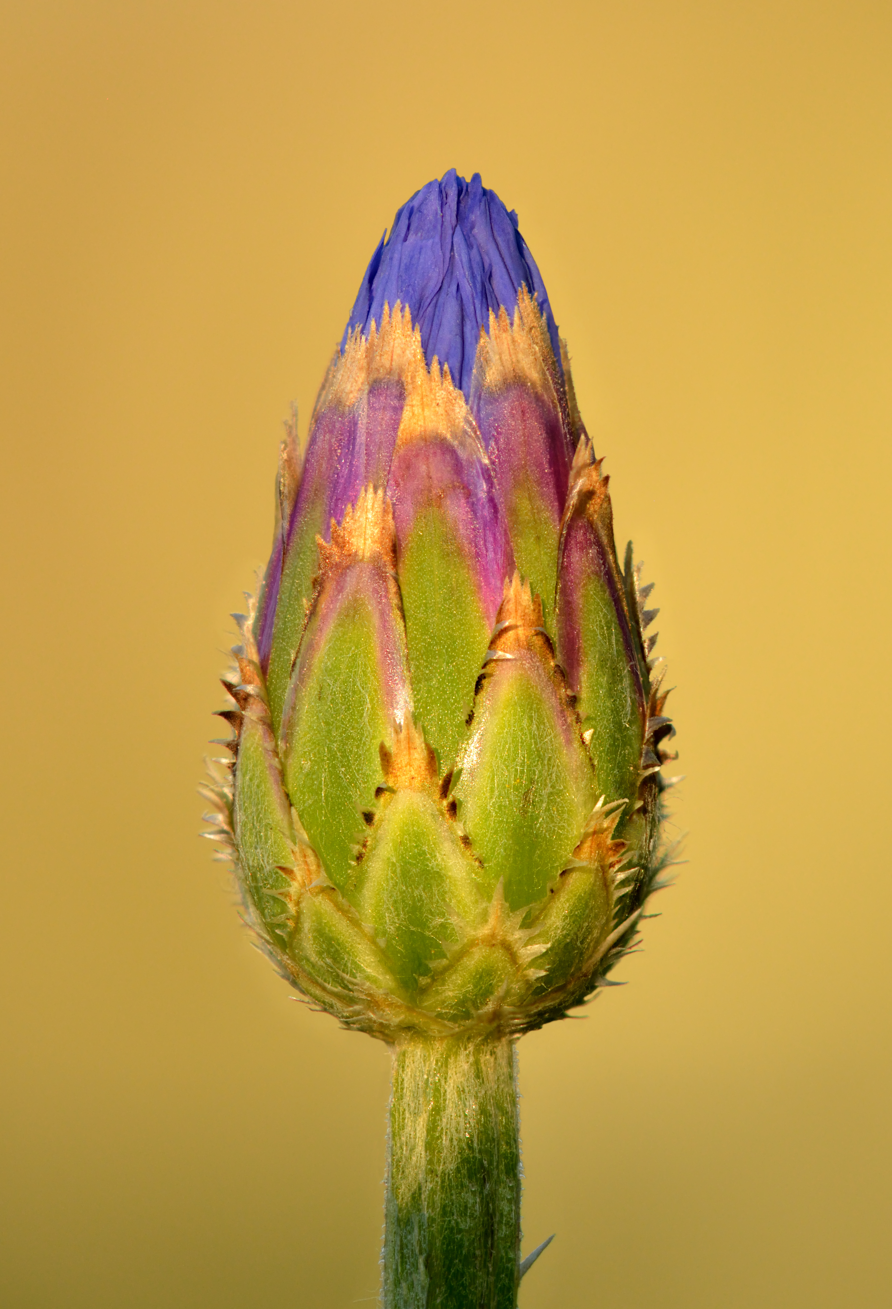 Cornflower